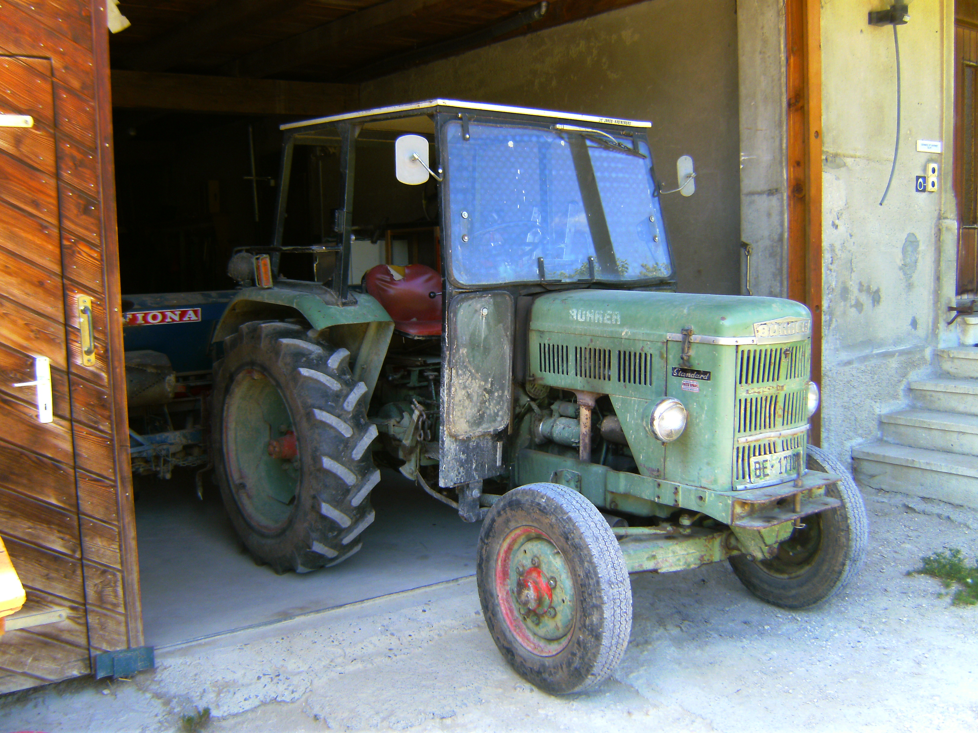 A Bührer tractor